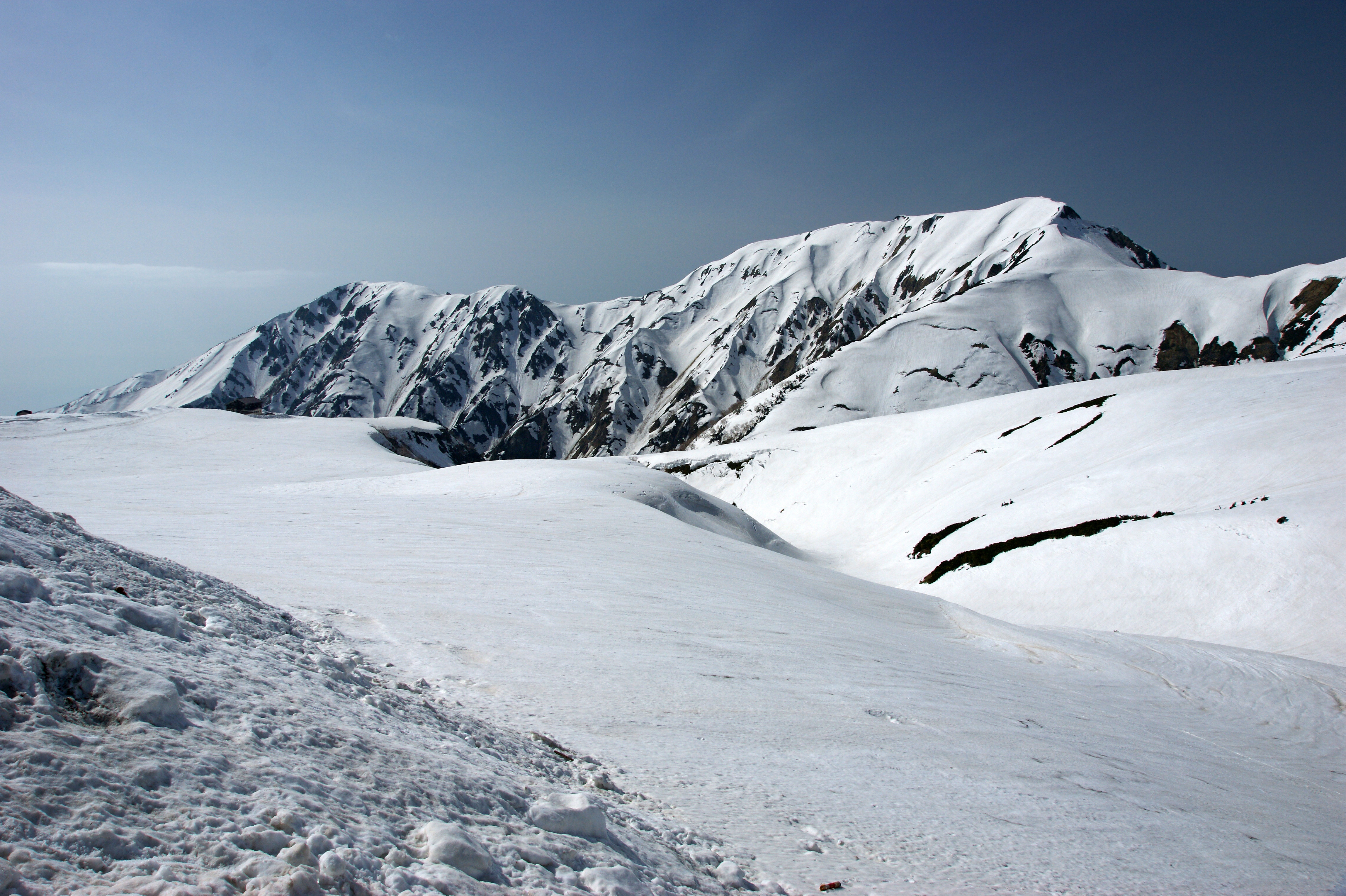 Dainichi Mountains (Mt. Oku-Dainichi-Dake peaks 2611m, Mt. Naka-Dainichi-Dake peaks 2500m, Mt. Dainichi-Dake peaks 2501m) from Murodo(2450m), Toyama prefecture, Japan